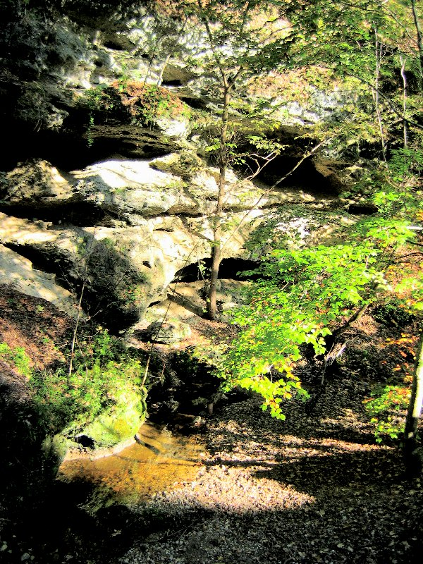 Kienbach creek in the Kiental gorge (pleistocene conglomerate rocks)